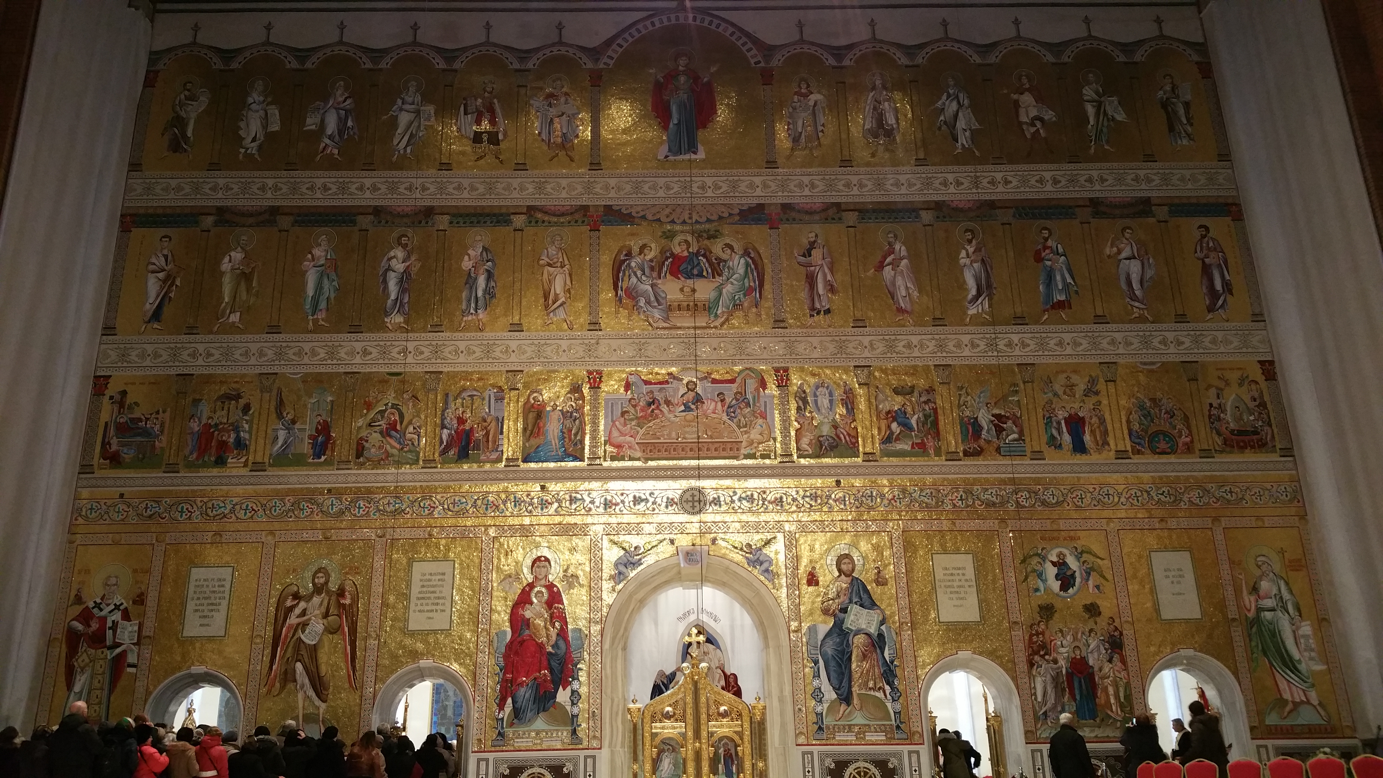 People's Salvation Cathedral - Days of consecration